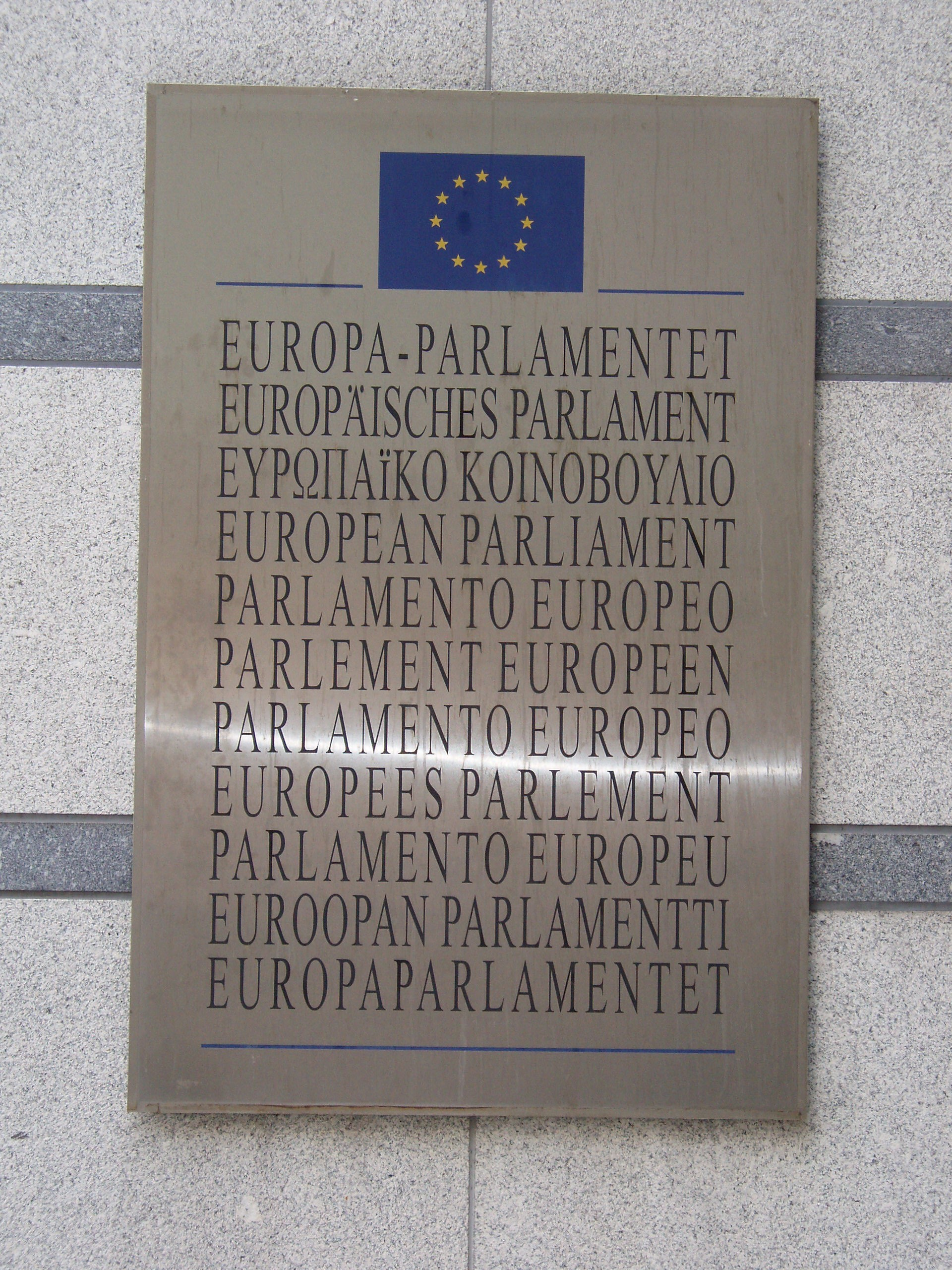 Black Board on the entrance of the European Parliament (Rue Wiertz), Brussel